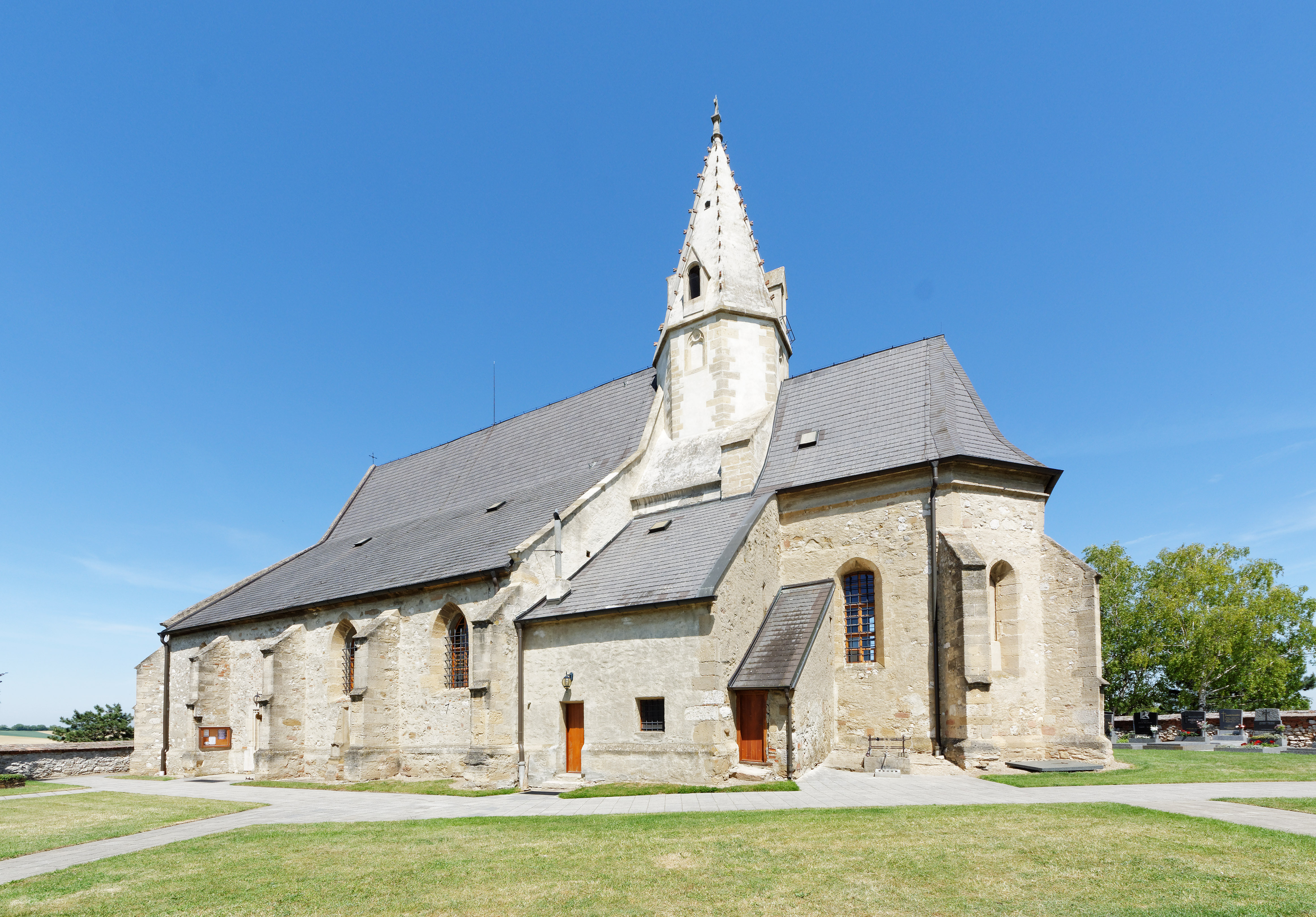 Catholic parish church in Fallbach, Lower Austria, Austria